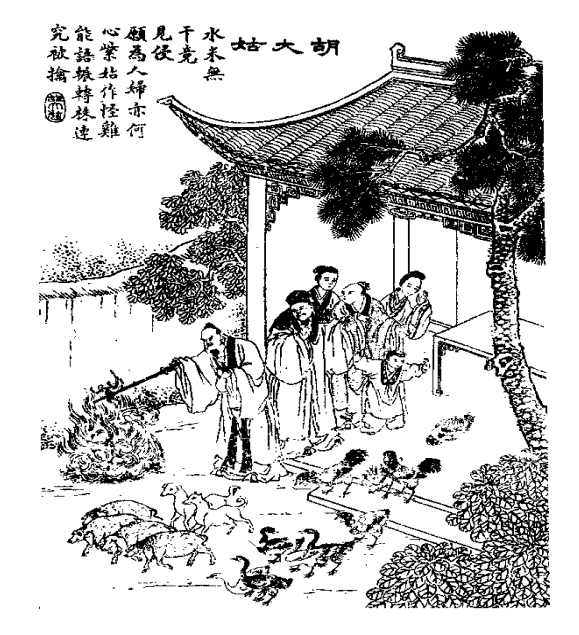 19th-century illustration of a scene from the short story "Hu Dagu" collected in Strange Tales from a Chinese Studio (1740).